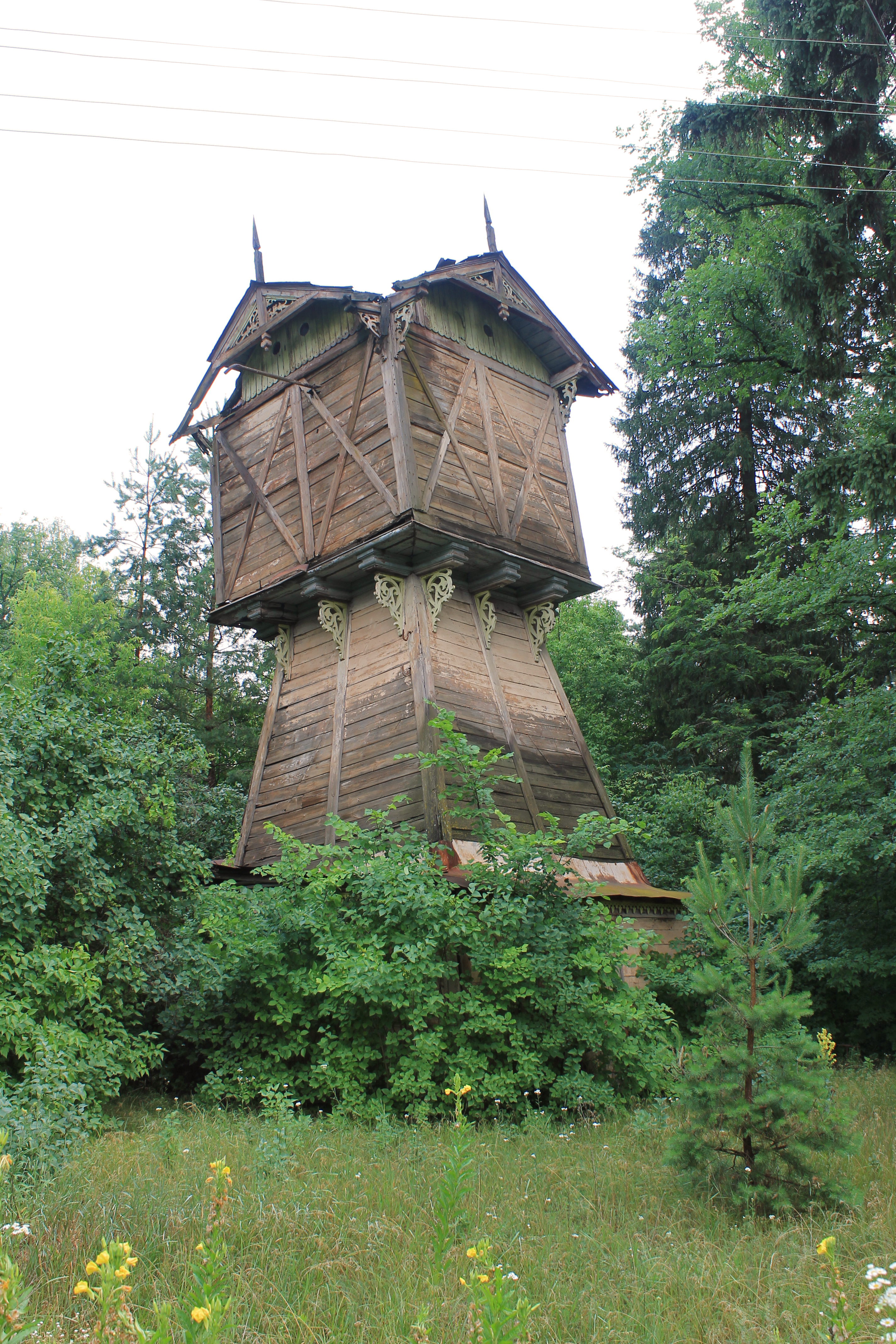 Water tower. Murafa, Krasnokutsk Raion, Kharkiv Oblast